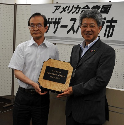 Masatsugu Ōe, Chairman of the Ihatov Space Action Center, and Masaki Ozawa, Mayor of Ōshū City, received support goods for the victims of Tōhoku earthquake and tsunami from Gaithersburg City on July 13, 2011. (c.f. "米国（平成23年7月27日現在）", 外務省: 「がんばれ日本！ 世界は日本と共にある」（世界各地でのエピソード集）：北米（米国）, Ministry of Foreign Affairs of Japan, July 27, 2011.)